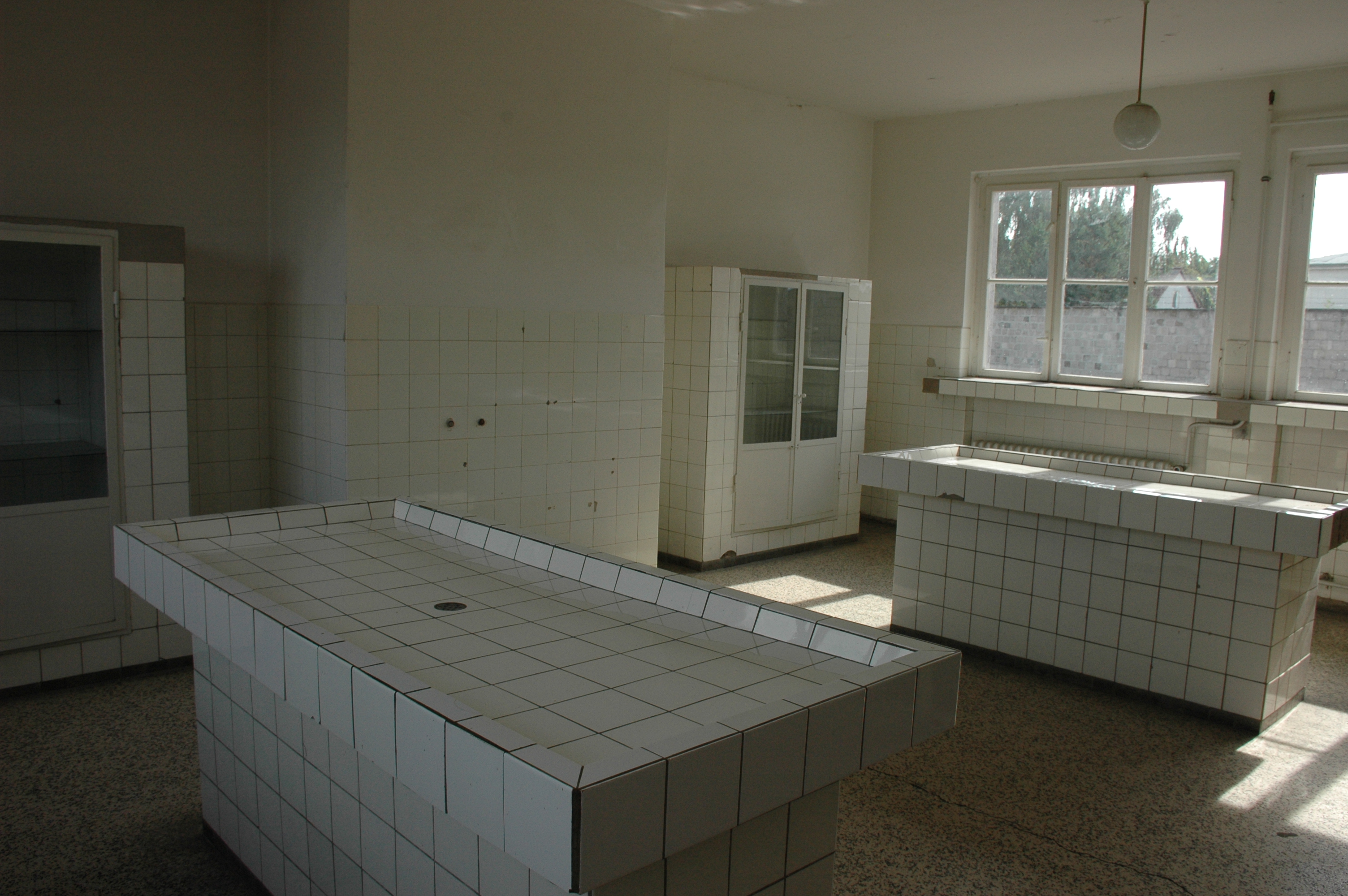 Concentration camp Sachsenhausen, pathological laboratory